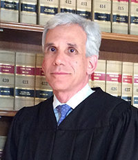 Judge Randolph D. Moss